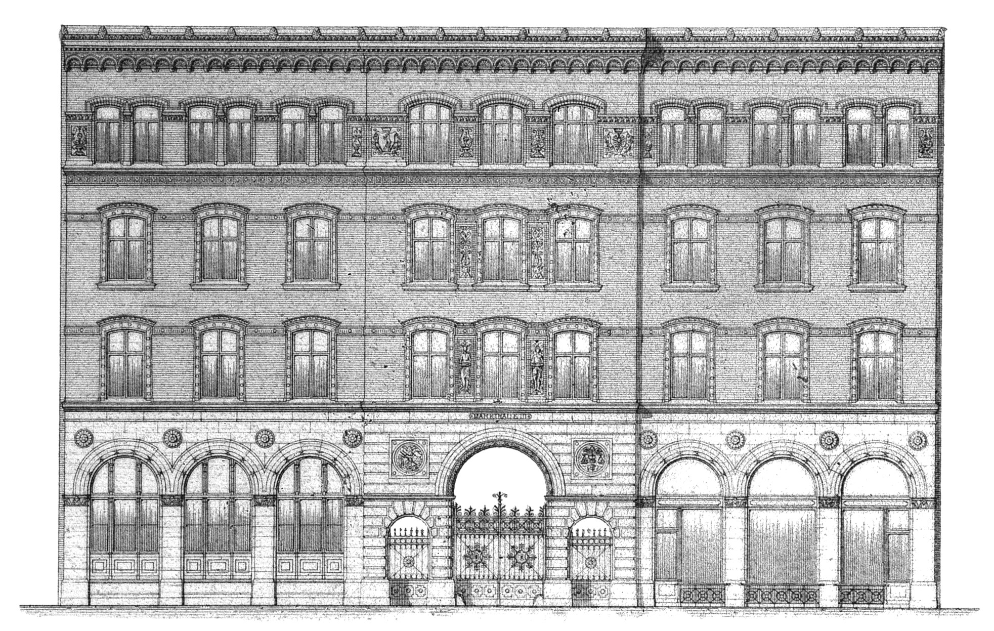 Berlin - market hall III, facade Zimmerstraße